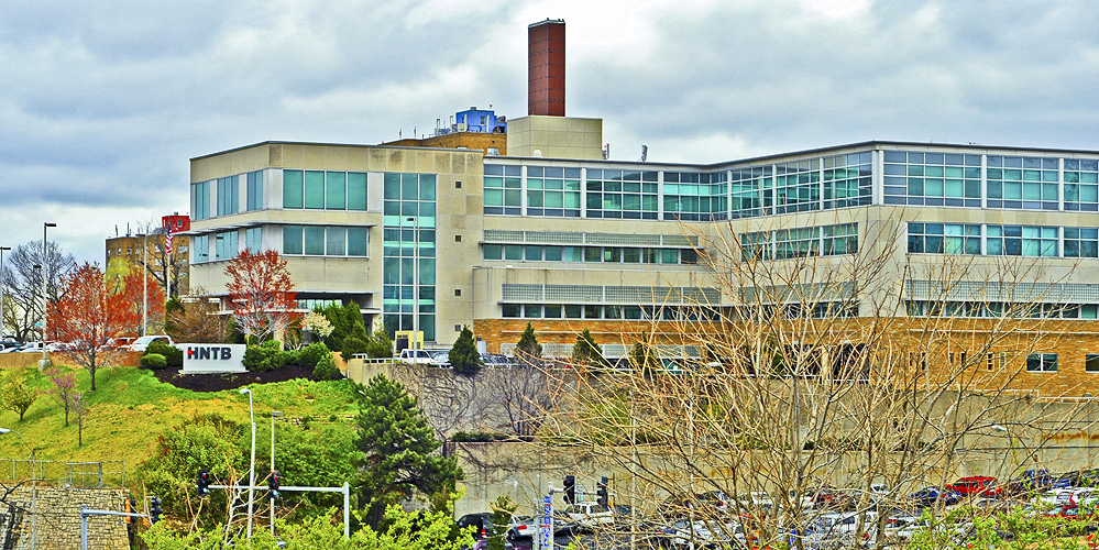 HNTB Headquarters Downtown Kansas City